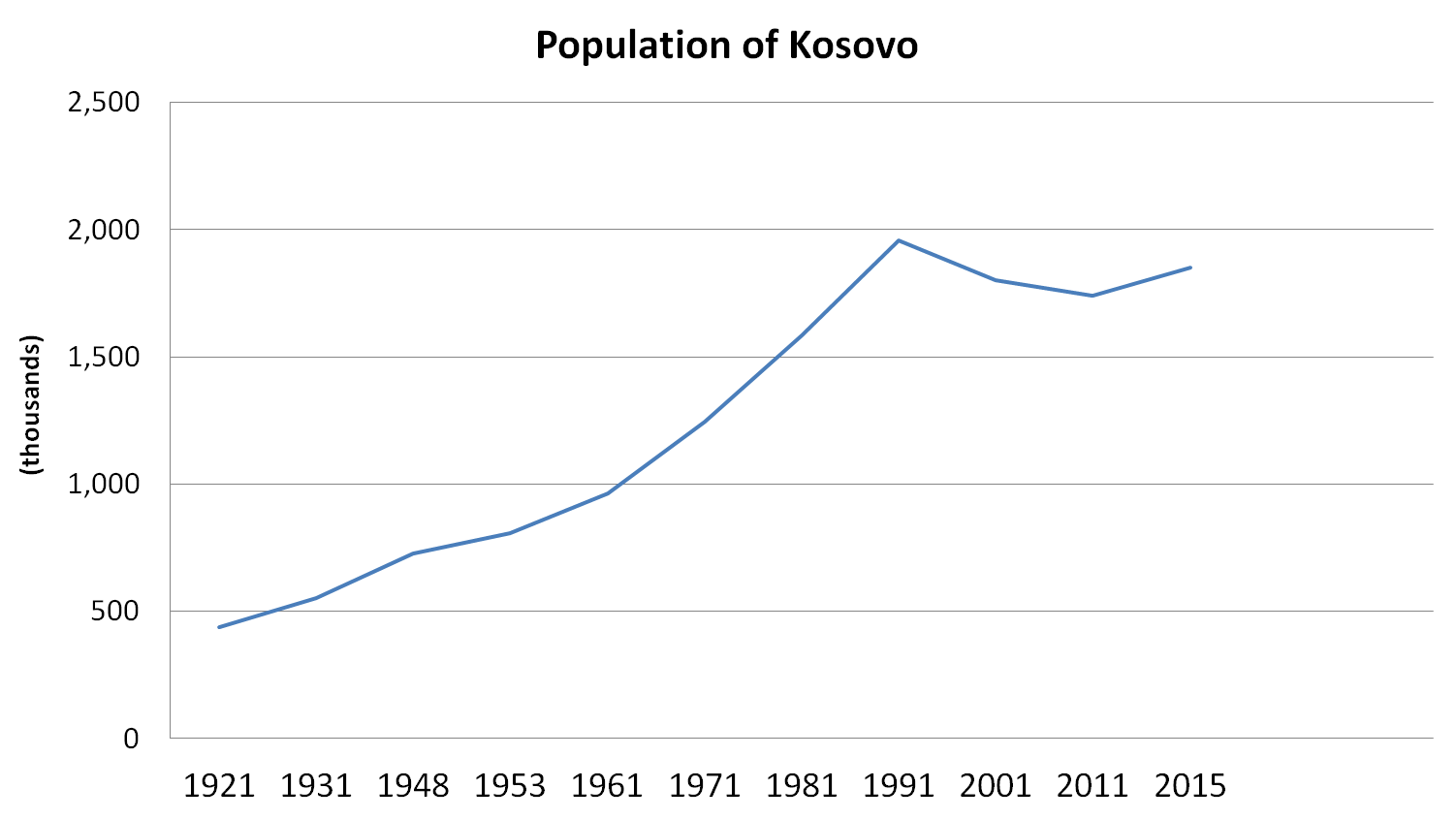 Population based on official estimates, 1921 census, conducted by the Kingdom of Serbs, Croats and Slovenes, comprising modern day Kosovo 1931 census, conducted by the Kingdom of Yugoslavia 2001 figures based on estimates.